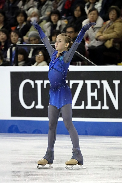 Alexandra Trusova at the Canada Grand Prix 2019